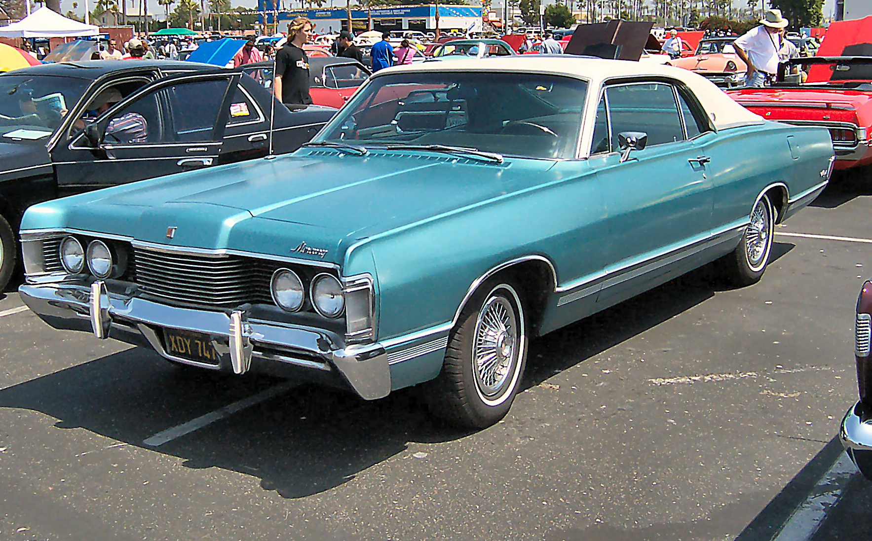 Cropped version of the original photo by User:Morven. Original can be found at Image:1968 Mercury Marquis.jpg.